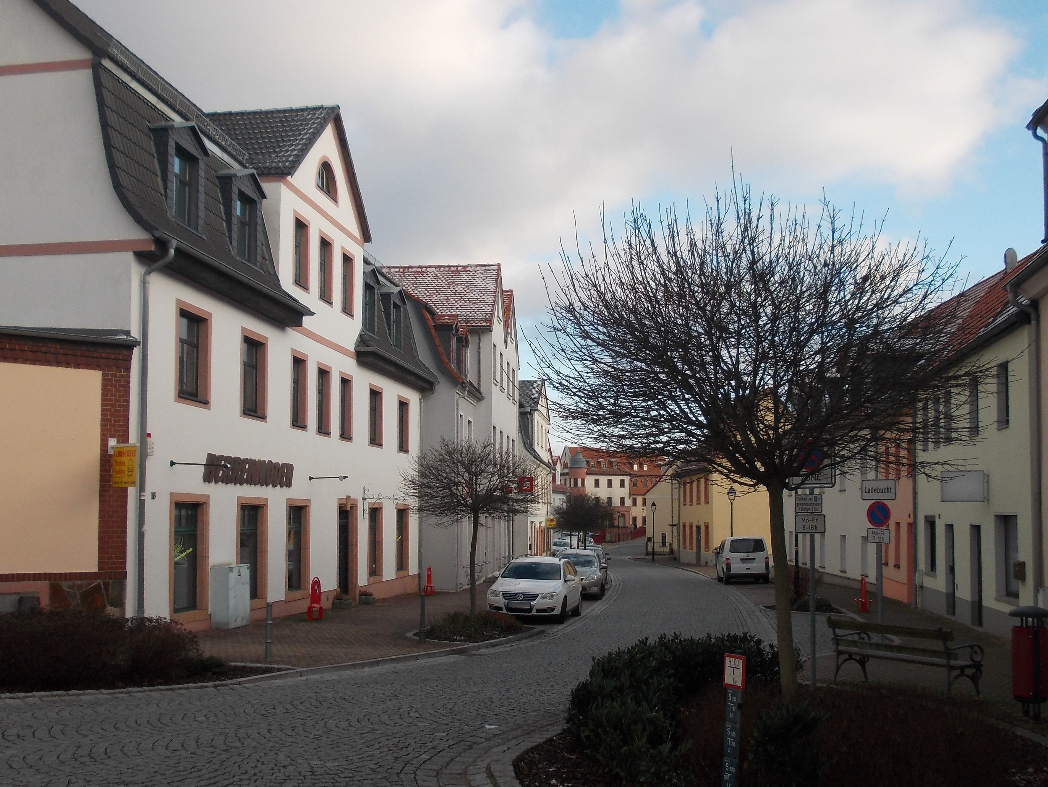 August-Bebel-Strasse in Bad Lausick (Leipzig district, Saxony)